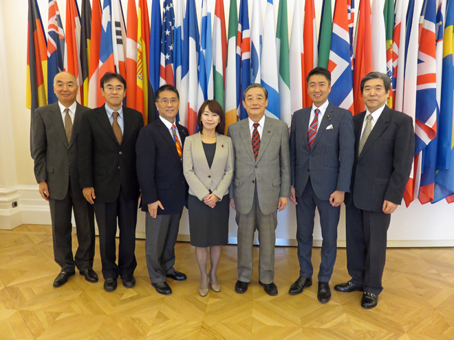 Members of the Committee on Judicial Affairs, House of Representatives and Kazuo Kodama, Ambassador to the Organisation for Economic Co-operation and Development, met Rintarō Tamaki, Deputy Secretary-General of the Organisation for Economic Co-operation and Development, at the Headquarters of the Organisation for Economic Co-operation and Development in Paris Commune, Paris Department, Île-de-France Region on October 12, 2015.(For terms of use, see 法的事項 ｜ 外務省.)